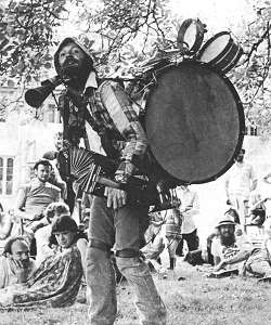 One man band, VicEllis, Sussex